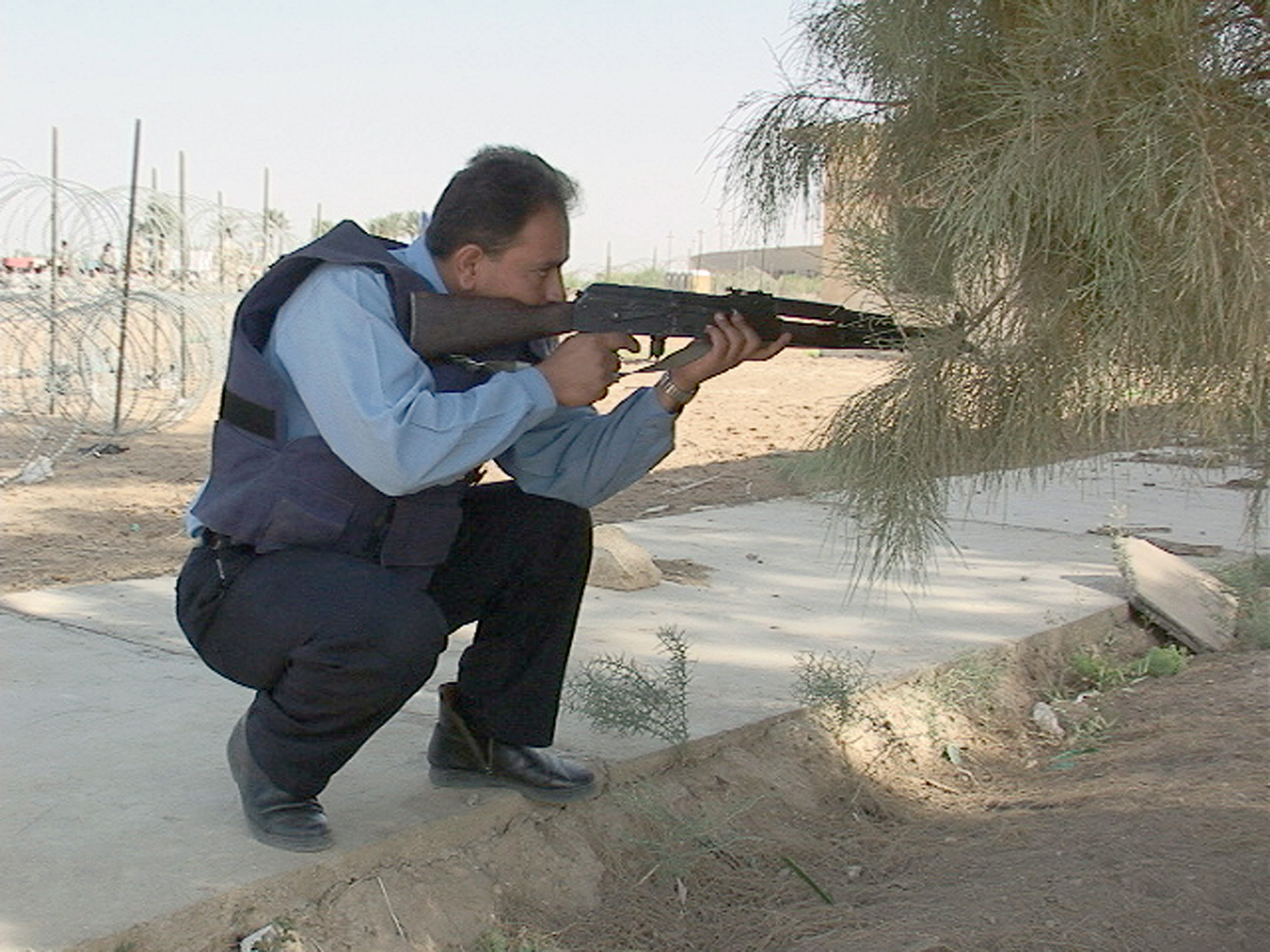 An Iraqi Policemen (IP) provides inner security with a Tabuk 7.62 mm assault rifle near the building as he waits for fellow Iraqi Policemen to enter the area of operation at Camp Ali, home of the 60th ICDC Brigade training camp, during Operation IRAQI FREEDOM and Operation GAUNTLET. Location: AR RAMADI, AL ANBAR IRAQ (IRQ)